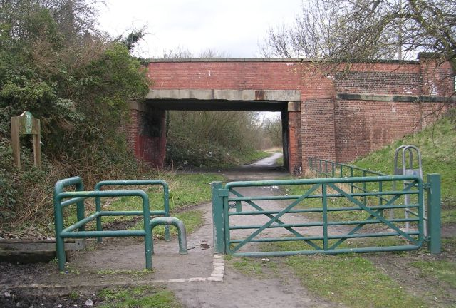 Bridge - Station Lane, Great Preston This former railway line is now part of a footpath trail called 'The Lines Way'.